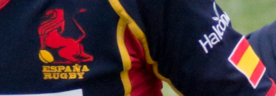 Logo of F.E.R. + badge of Spain